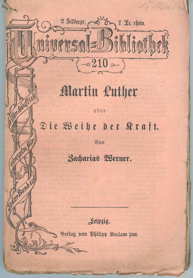 Reclam Verlag, Germany: Book dating from 1870.